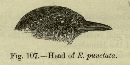 Head detail of Spotted Elachura (Elachura formosa) on drawing from 1889.